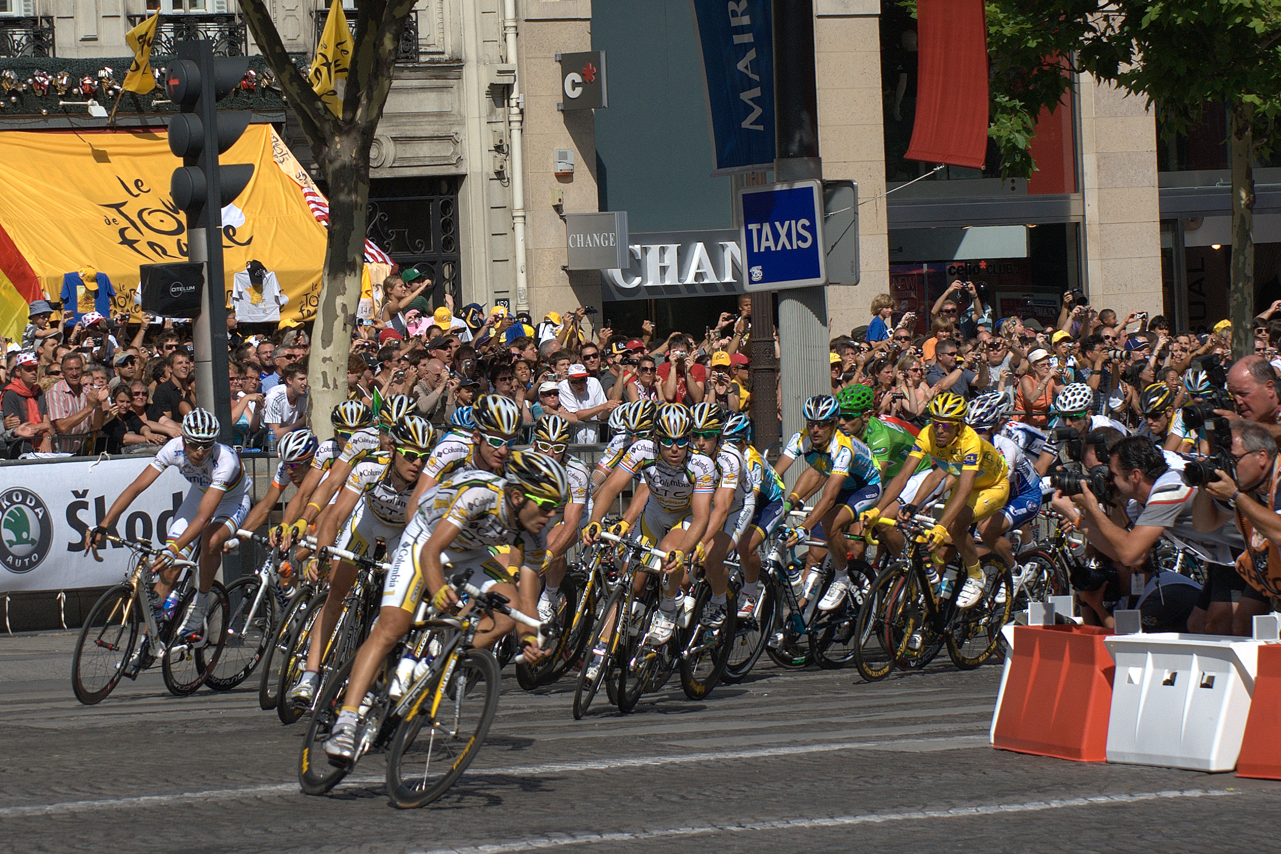 Team Columbia in control on the Champs-Élysées, Paris Albert Contador (yellow jersey), Thor Hushovd (green jersey), Alessandro Ballan (rainbow jersey)